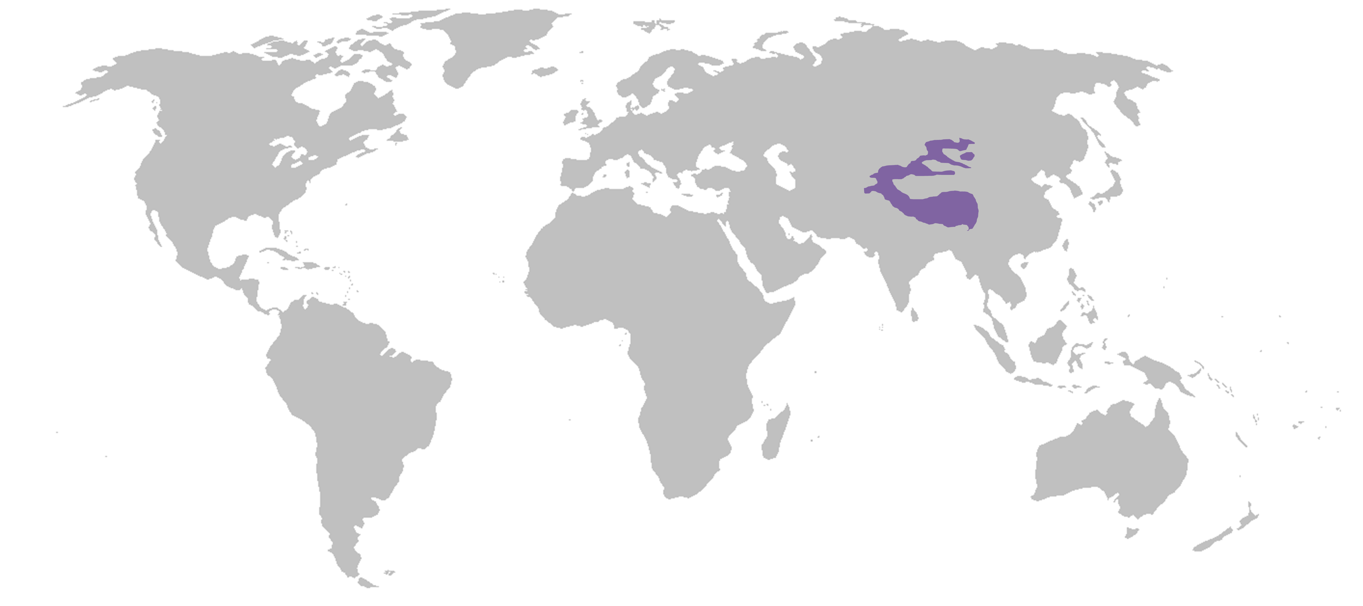 Snow leopard (Uncia uncia) range map.